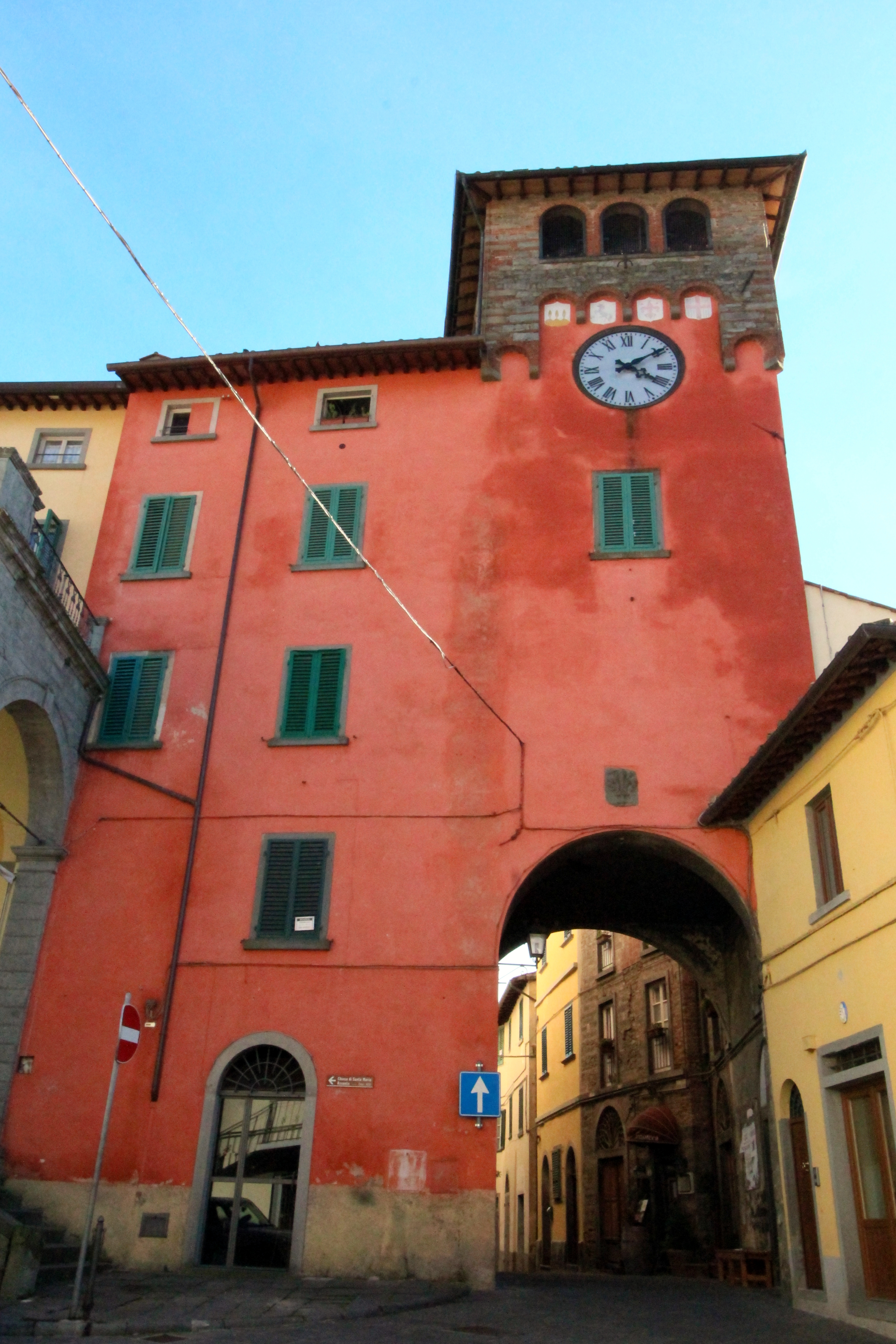 Towergate Porta dell'Orologio, center of Loro Ciuffenna, Province of Arezzo, Tuscany, Italy